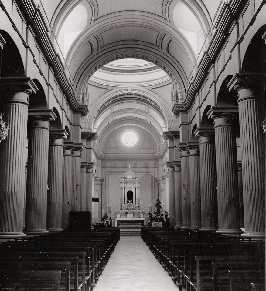 Interior de la Catedral de San Miguel de Tucumán previo a las reformas de la década de 1940.